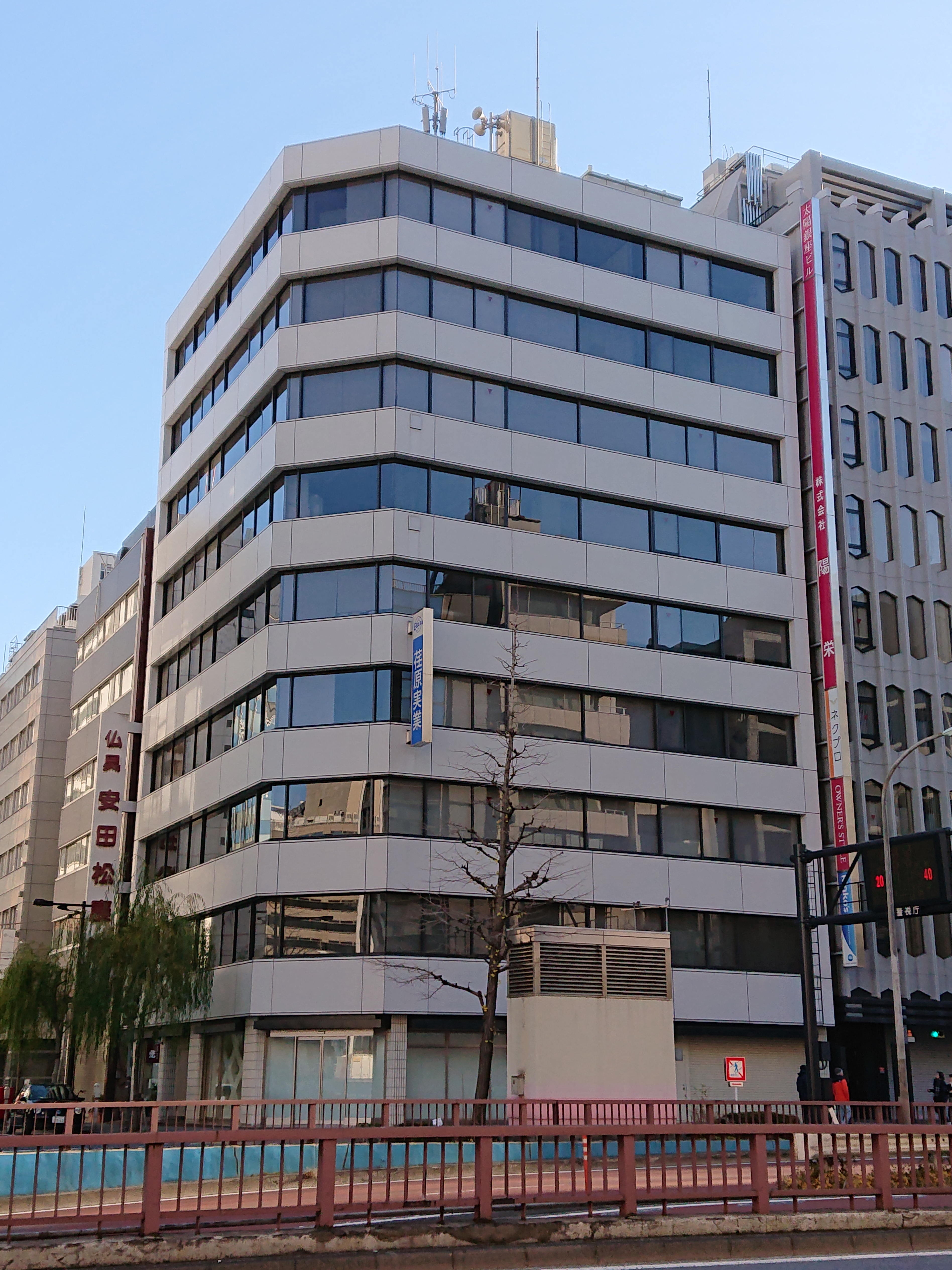 Ebara Jitsugyo (荏原実業) headquarters, located at 7-14-1 Ginza, Chuo, Tokyo, Japan